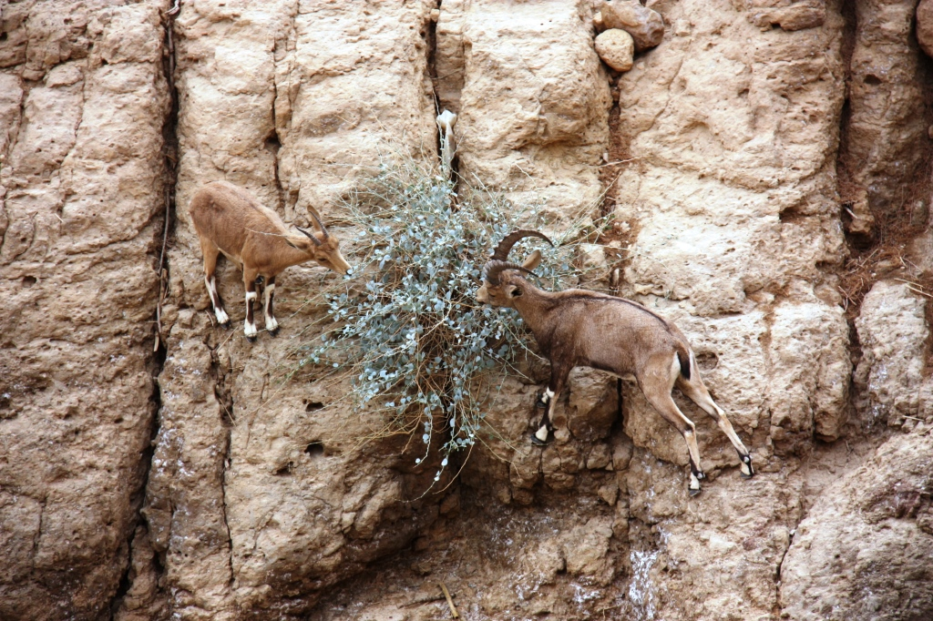 Arugot stream, Wildlife and Plants of Israel